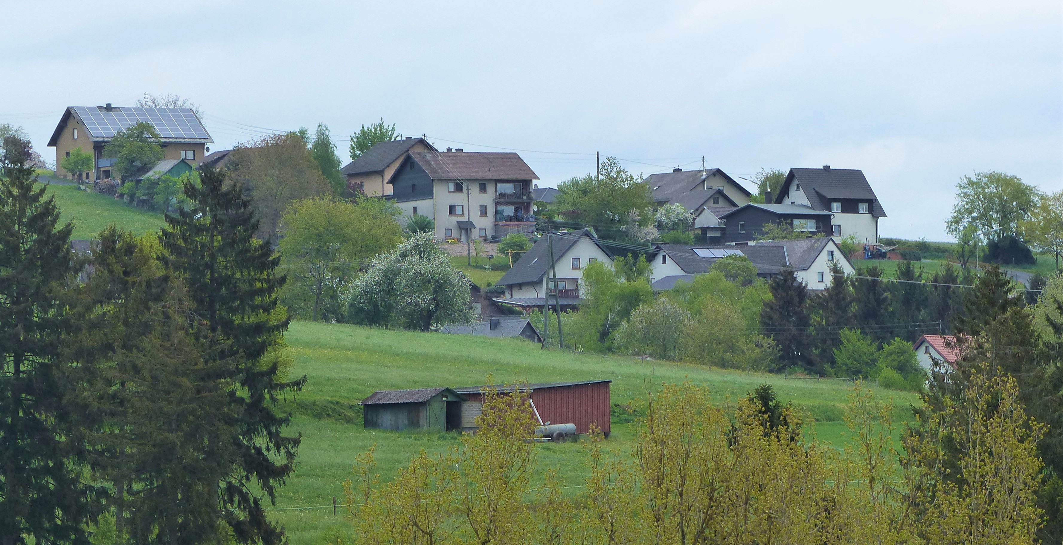 Hönningen von Elkhausen aus gesehen